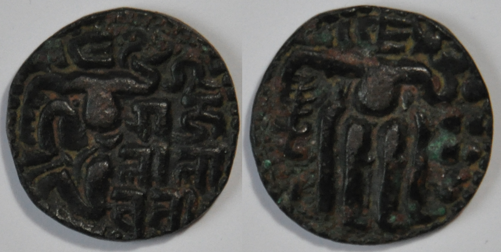 A Copper Massa coin of Queen Lilavati (1197 - 1200, 1209 - 1210, 1211) of Sri Lanka.